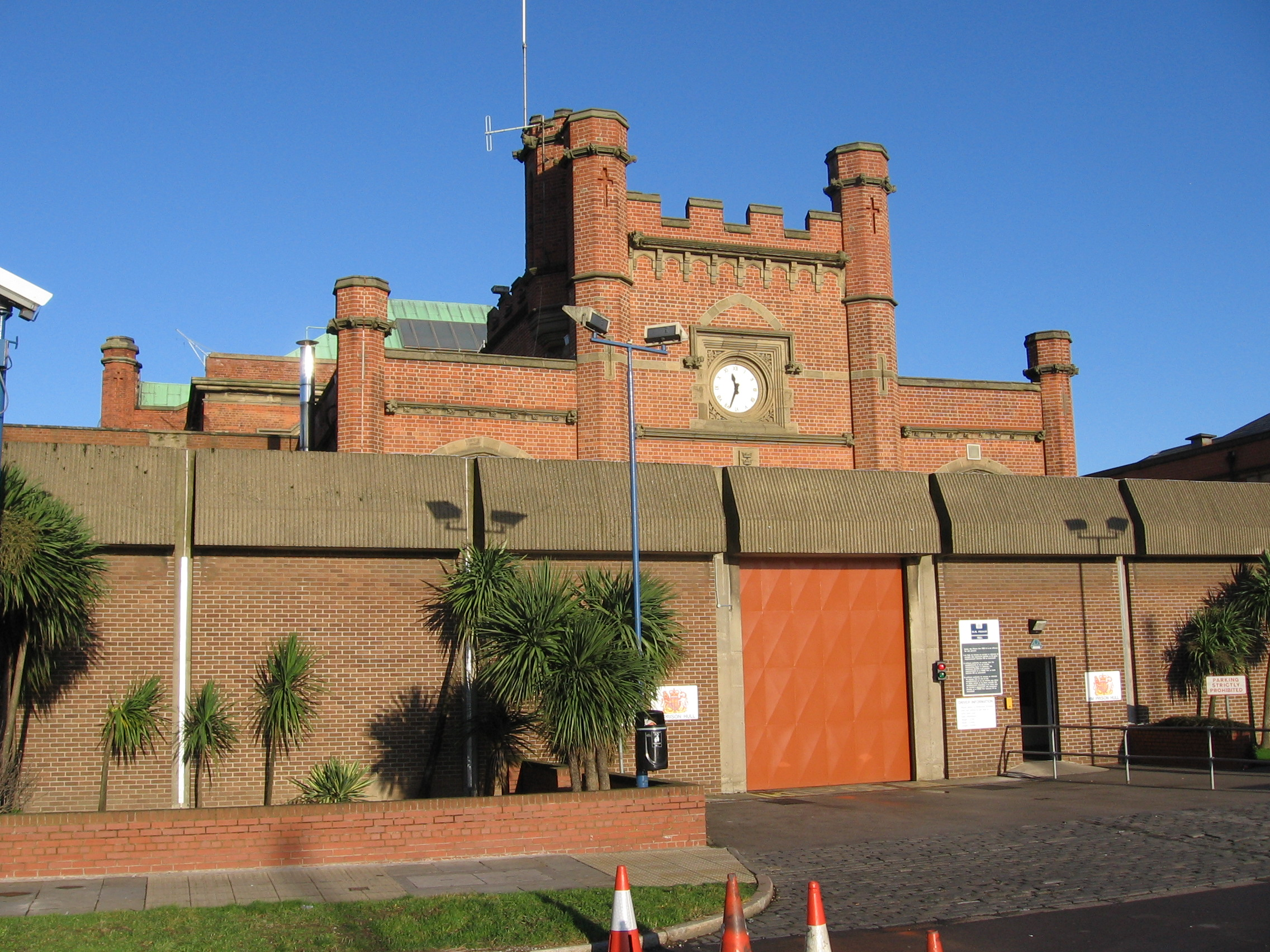 HMP Hull, Kingston upon Hull in the East Riding of Yorkshire, England.